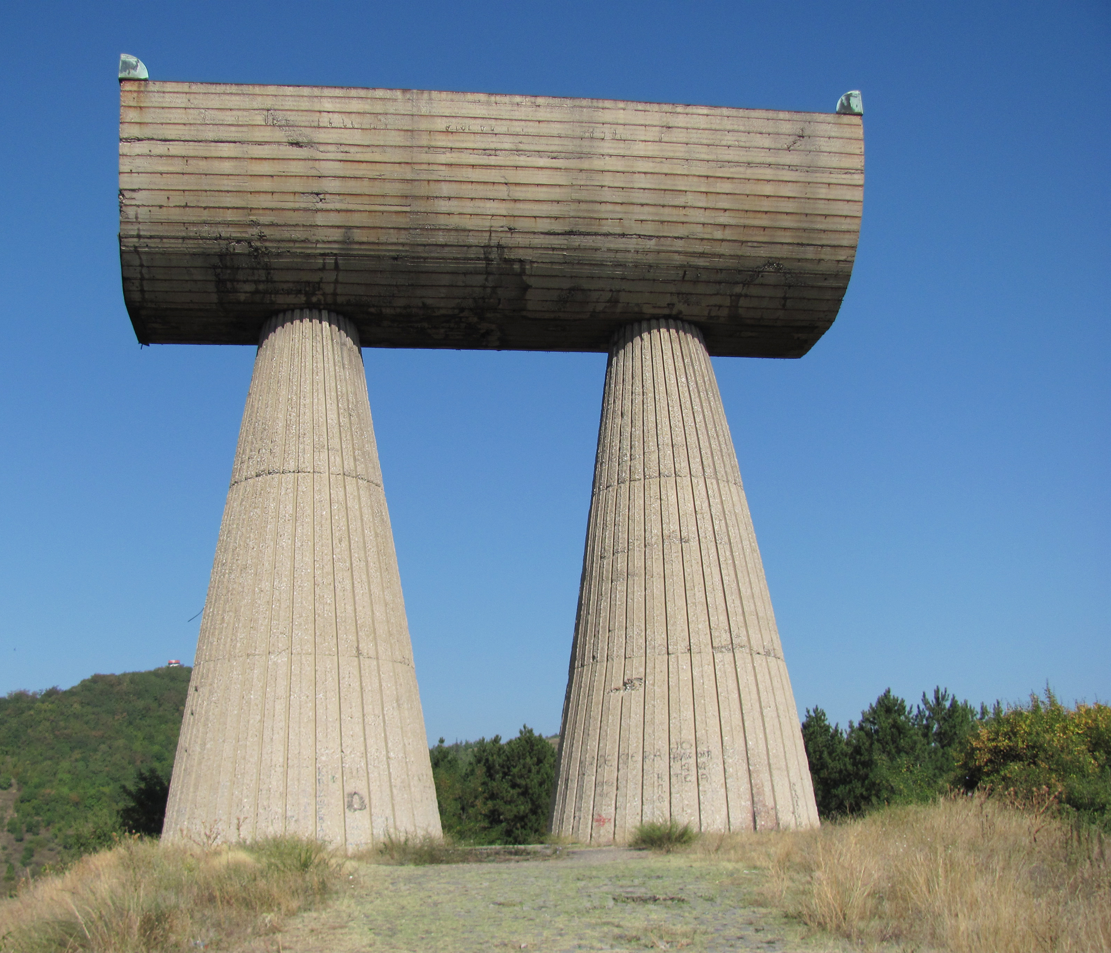 A monument on a hill on the north side of Kosovska Mitrovica, KosovoThis photograph was taken with a Canon PowerShot SX120 IS